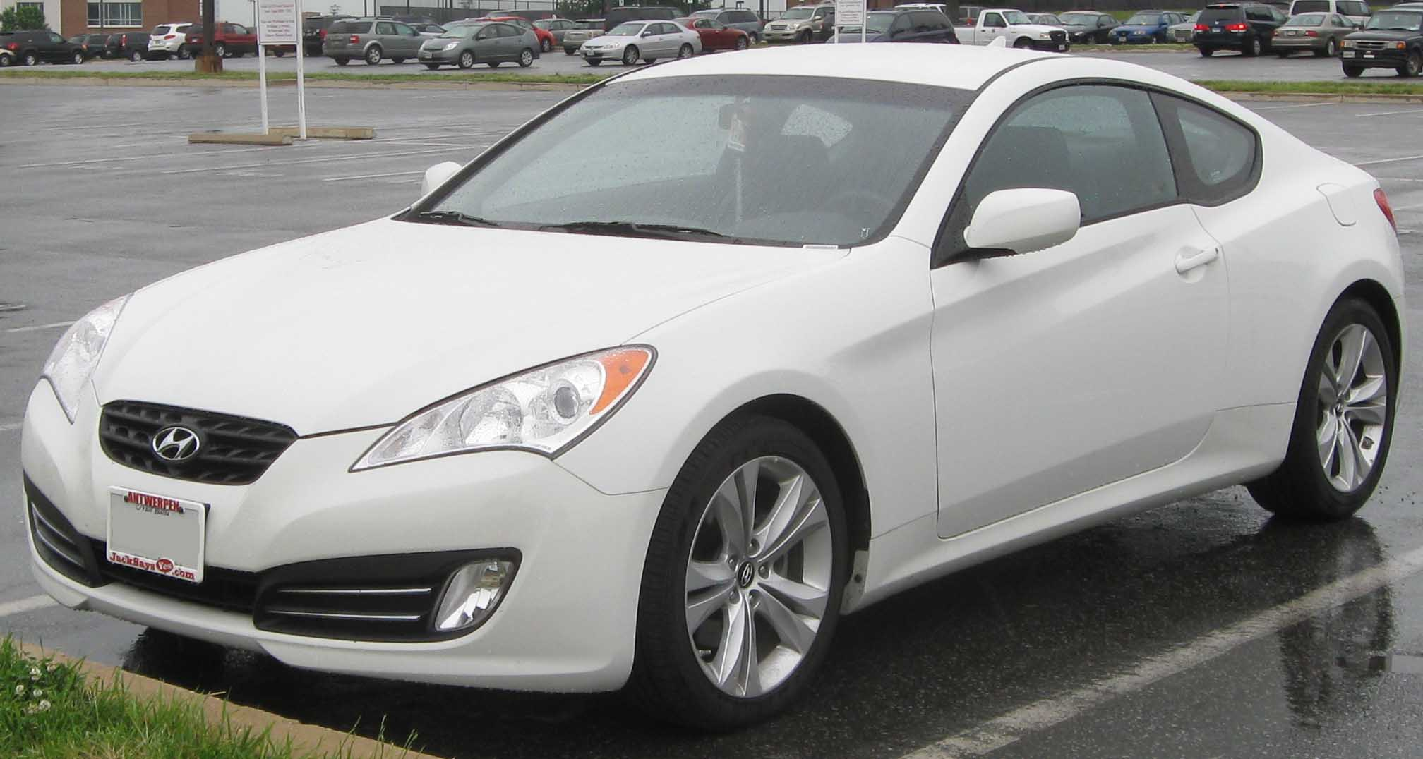 2010 Hyundai Genesis Coupe photographed in College Park, Maryland, USA.